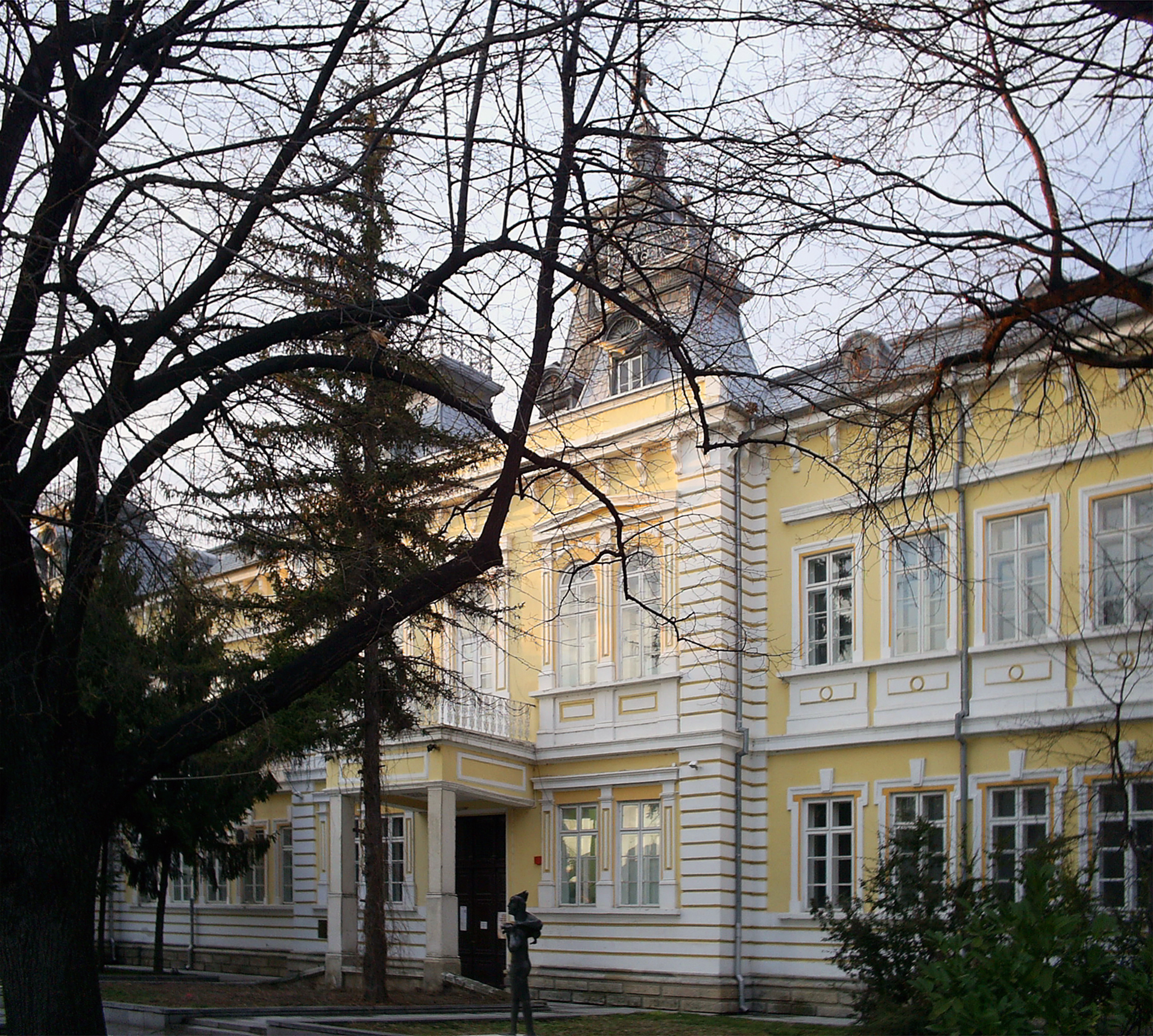 The Art gallery in Silistra, Bulgaria